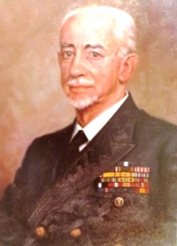 Charles Lorain Carpenter, Rear Admiral USN retired, painting. CLC Family image.